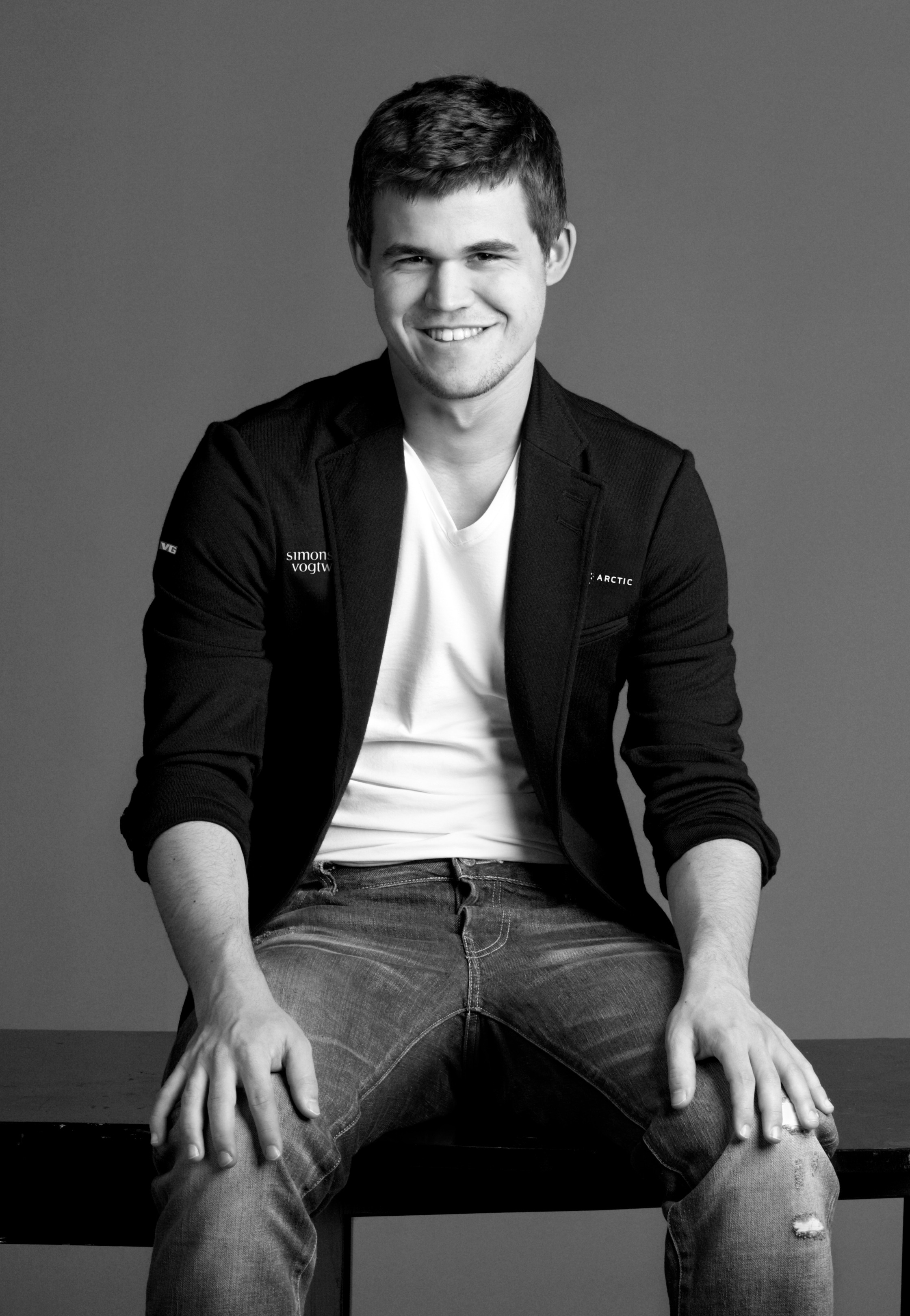 Norwegian chess player Magnus Carlsen.